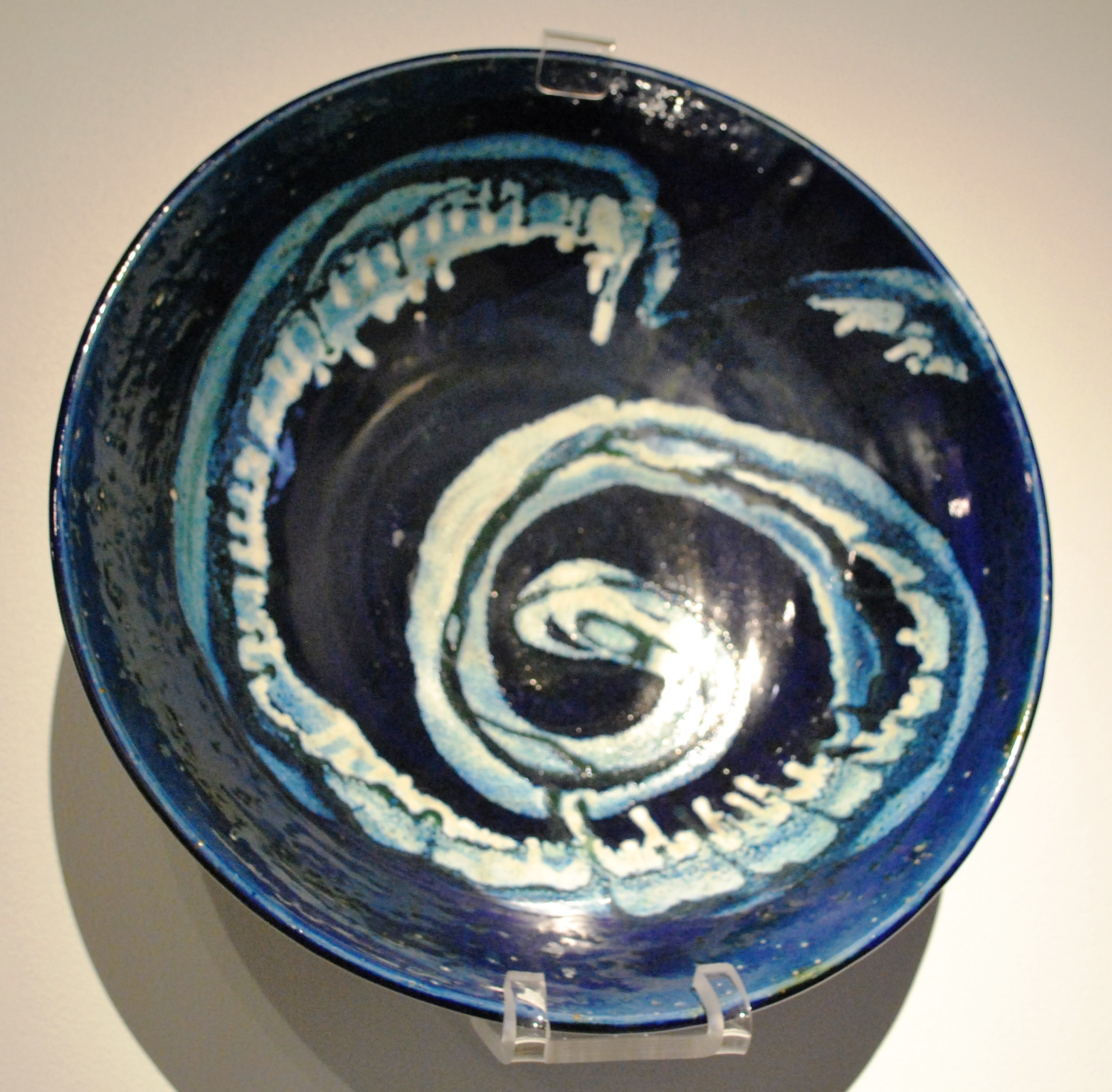 Stoneware plate with blue wave on display at the Museum of Artes Populares in Mexico City